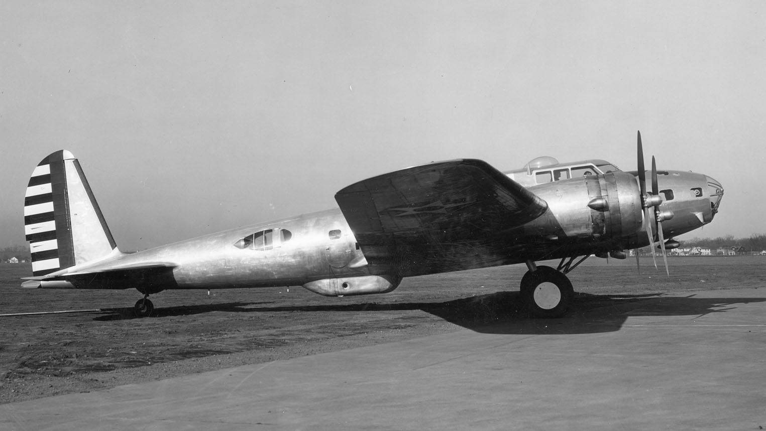 Early B-17D at Wright Field. The "D" model was the last B-17 series to have a small "shark-fin" tail and underside "bathtub" gun position. (U.S. Air Force photo)